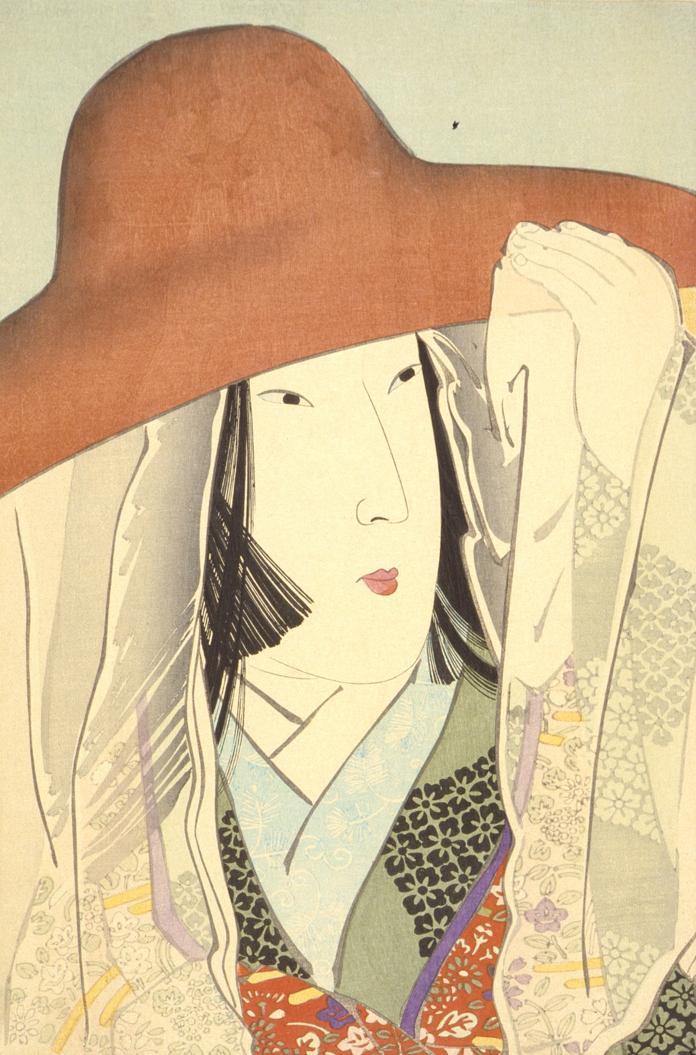 Japan, 1896 Series: Ancient Patterns Prints; woodcuts Triptych; color woodblock prints Gift of Carl Holmes (M.71.100.59a-c) Japanese Art